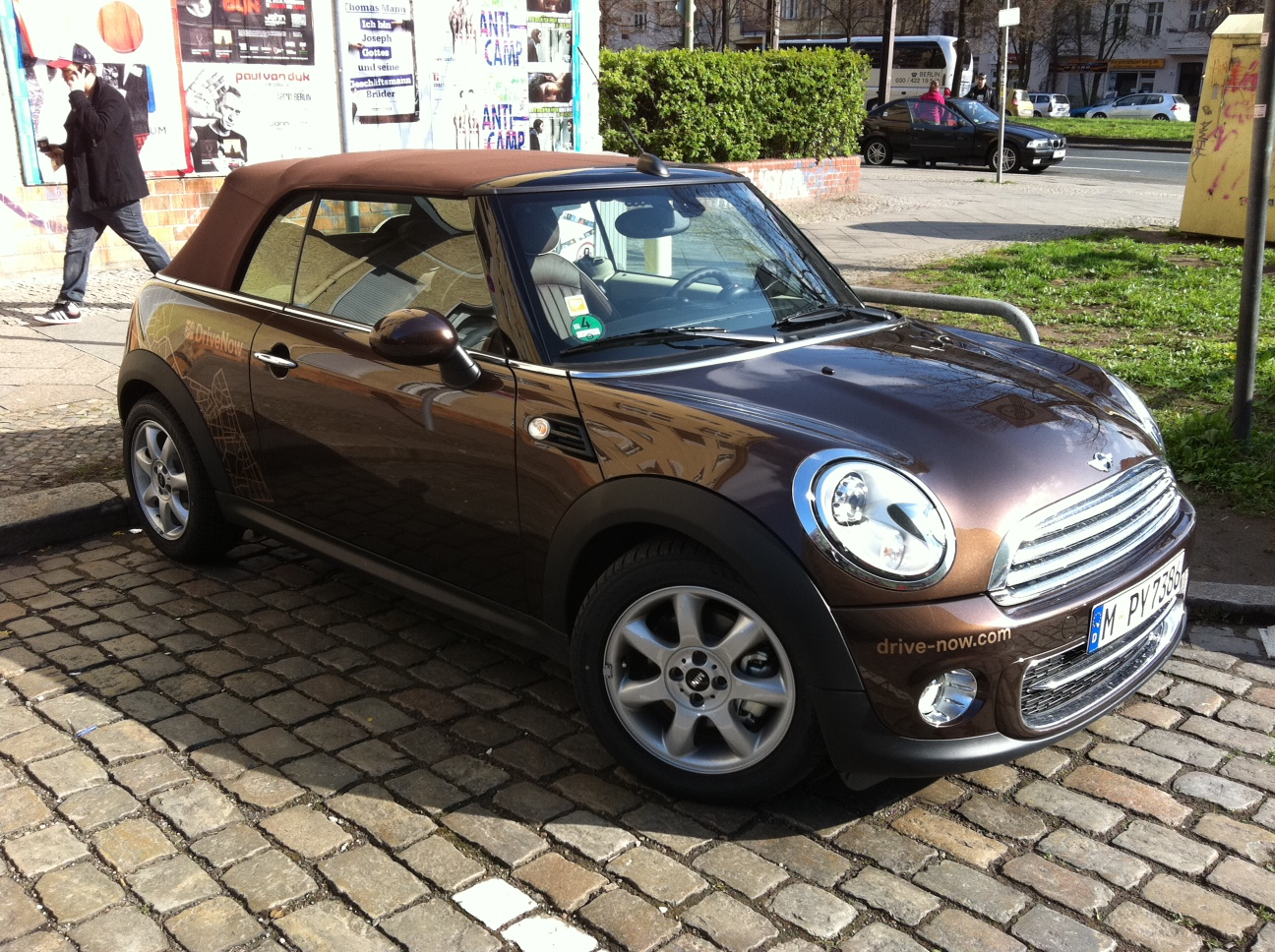 DriveNow MINI Convertible